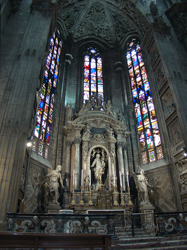 Milan Cathedral, Lombardy, Italy. Altar of the Madonna of the Tree, transept north arm.